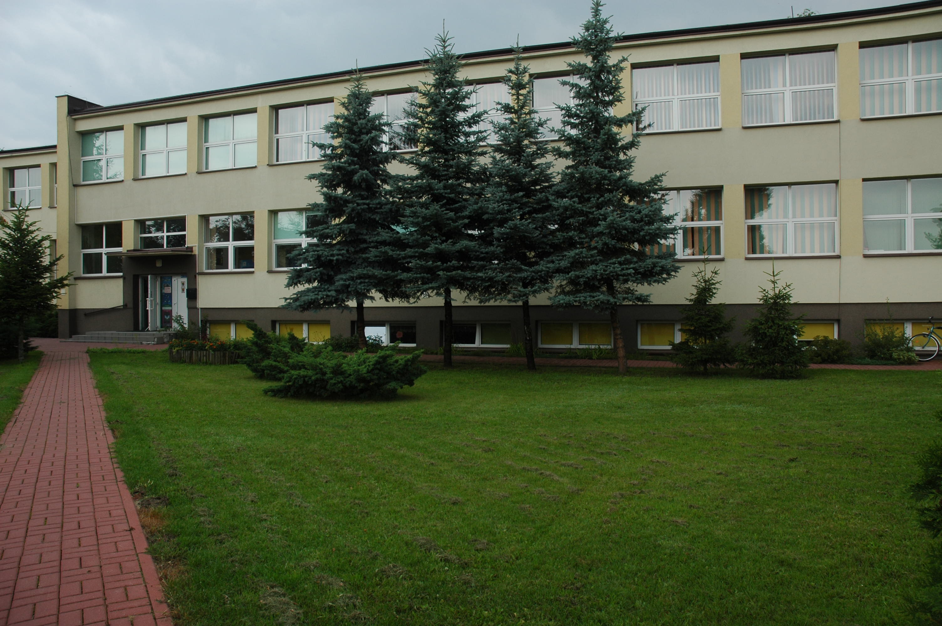 Primary school them. Stanislaw Moniuszko (Łajski)